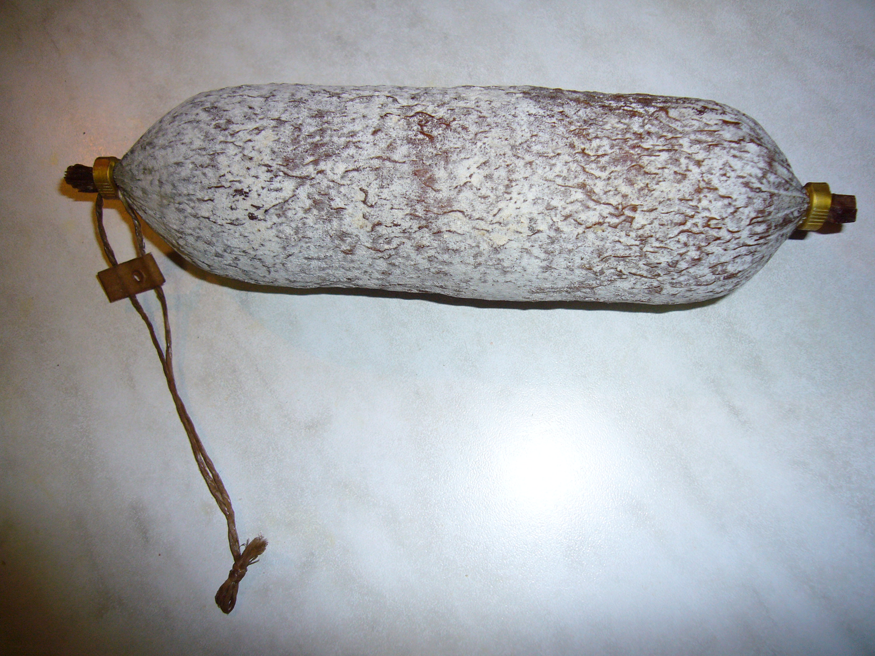 Typical delicious sausage called "Szegedi téliszalámi" .